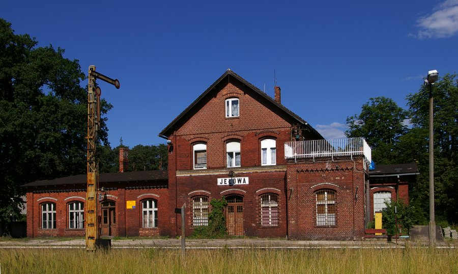 Railway station building in Jełowa, Opole voivodship, Poland